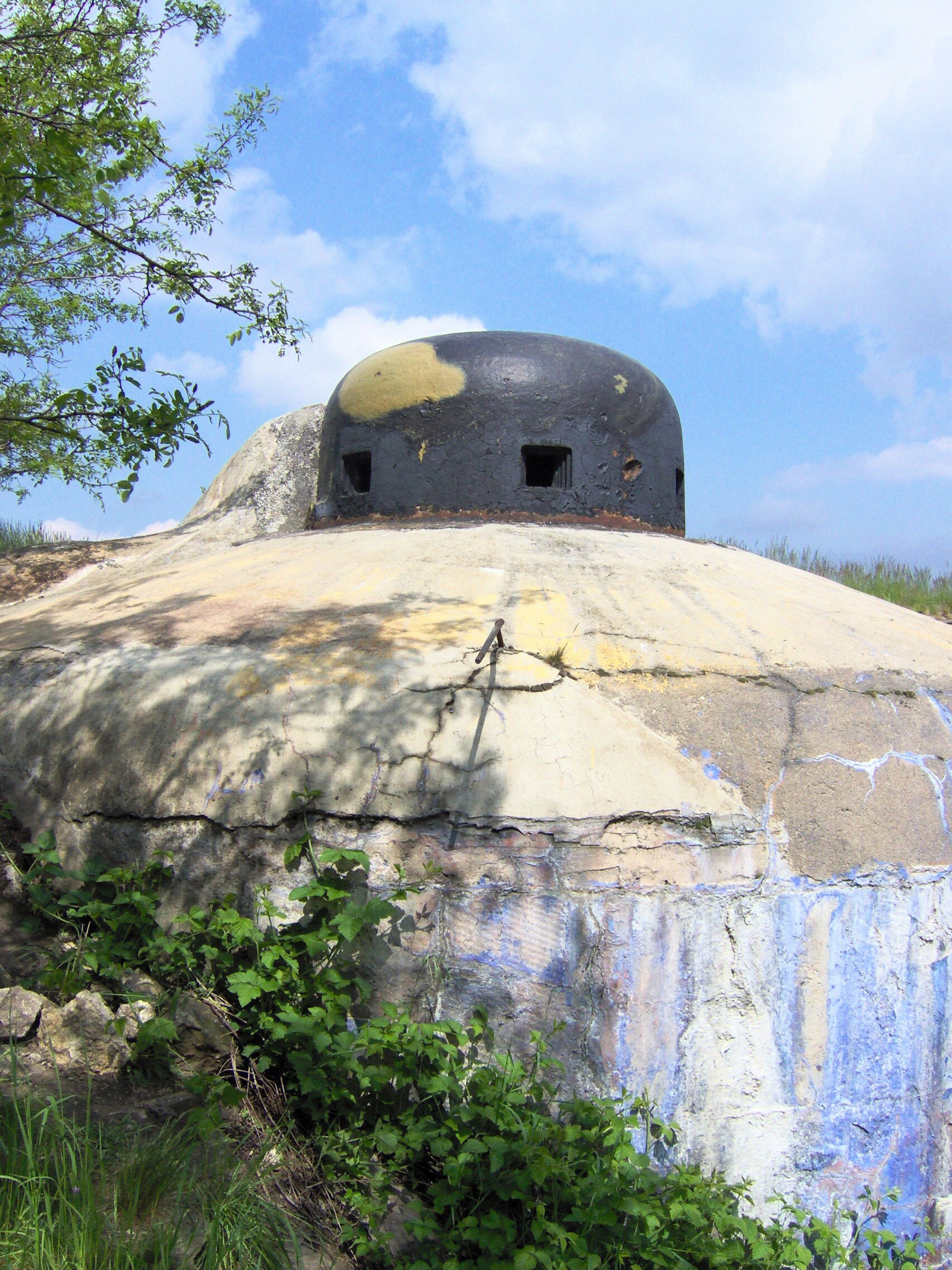 MJ-S 29 Svah infantry casemate, Břeclav District, Czech Republic